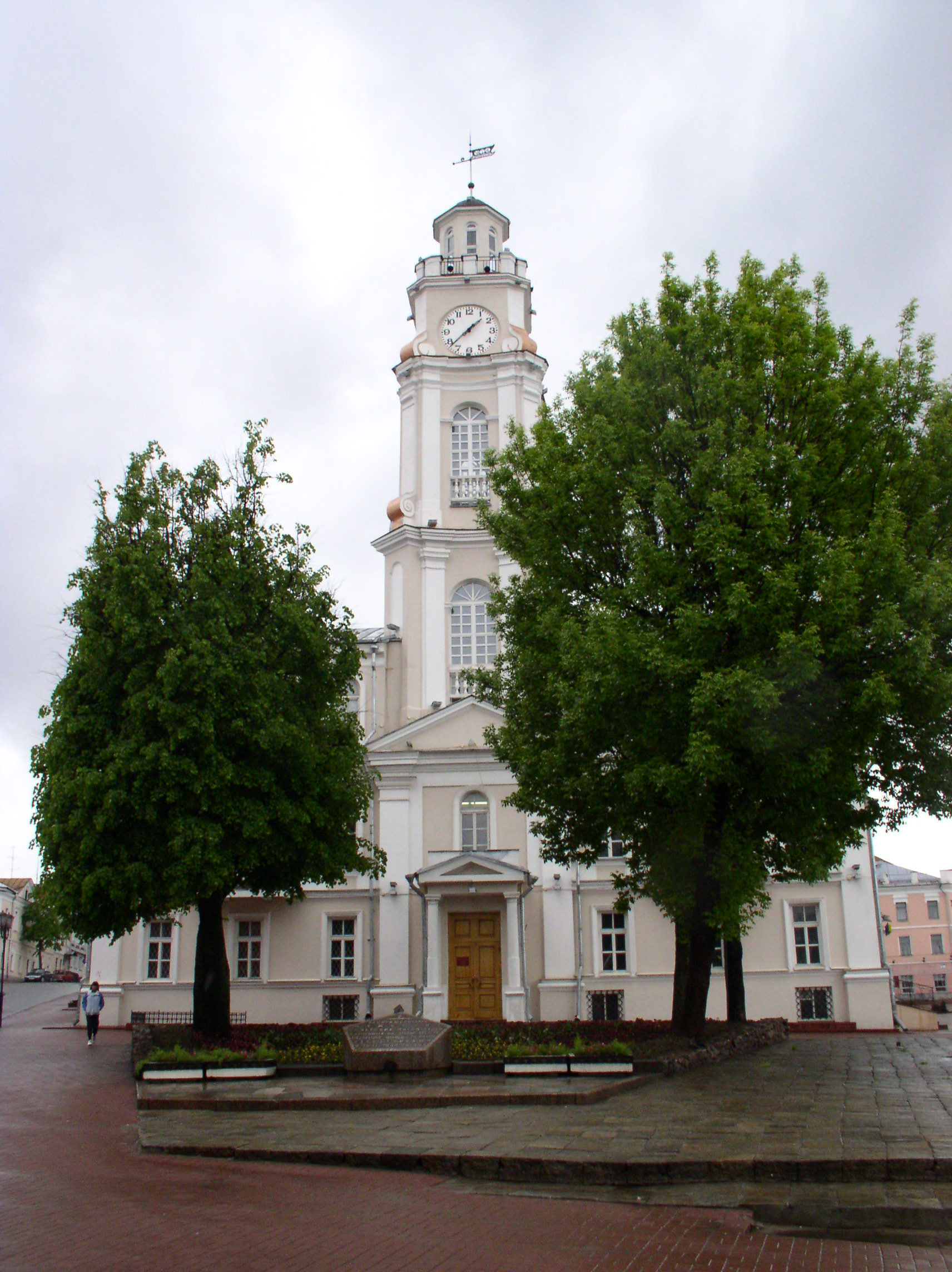 City hall. Vitsebsk, Belarus.